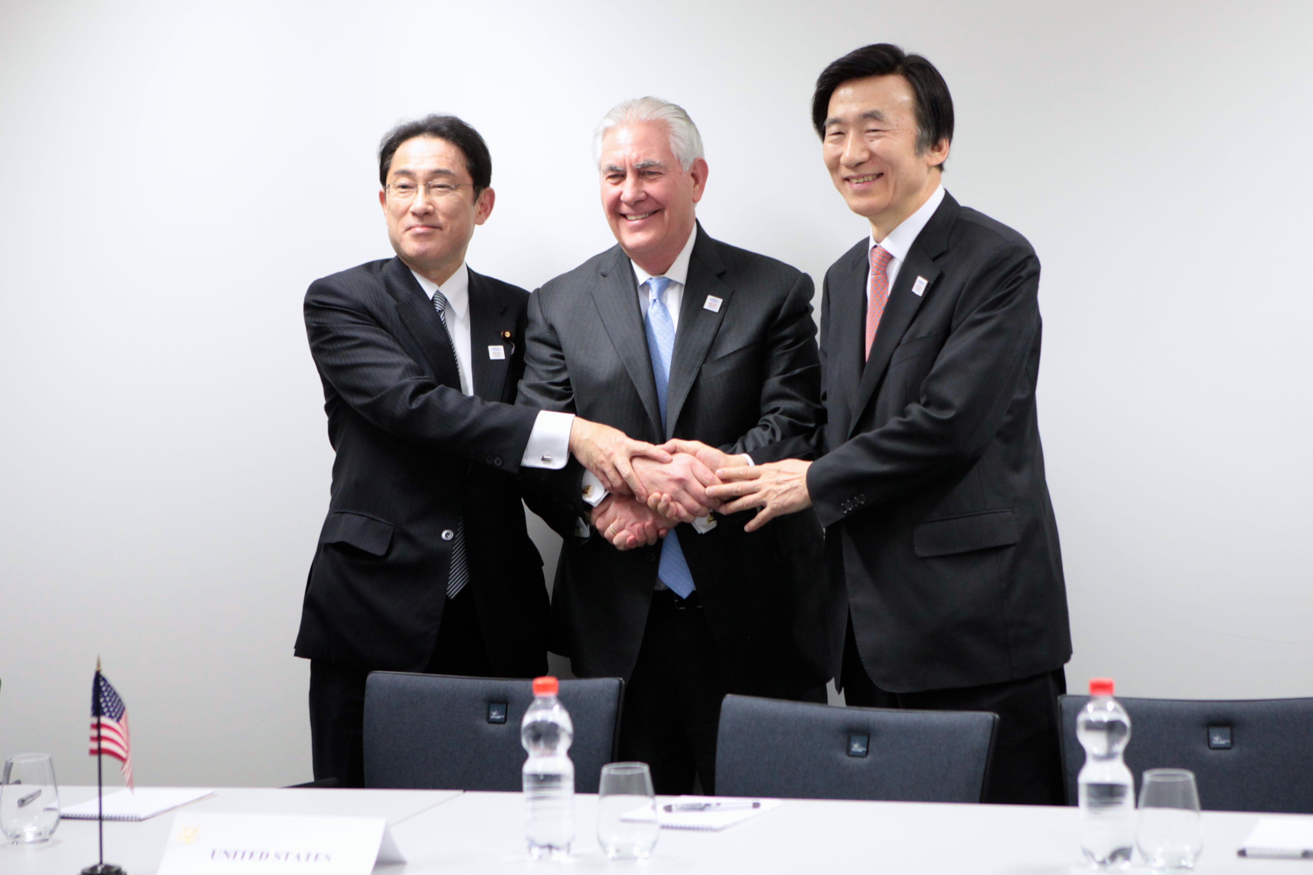 U.S. Secretary of State Rex Tillerson joins Japanese Foreign Minister Fumio Kishida and Republic of Korea Foreign Minister Yun Byung-Se for a photo prior to the start of their trilateral meeting on the sidelines of the G-20 Foreign Ministers’ Meeting in Bonn, Germany, on February 16, 2017. This is his first official trip as Secretary of State. [State Department photo/ Public Domain]